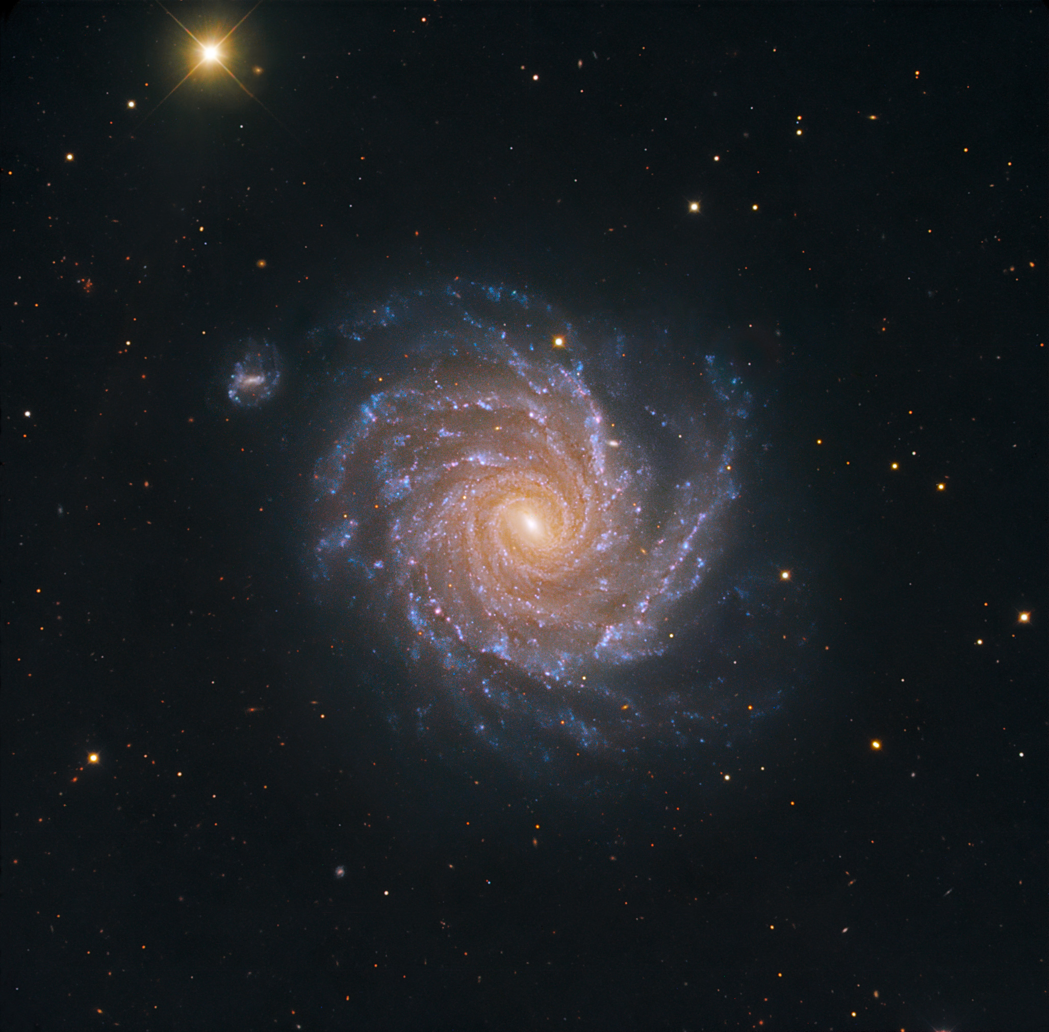 The striking, large spiral galaxy NGC 1232, and its distorted companion shaped like the greek letter "theta". The pair is located roughly 70 million light-years away in the constellation Eridanus (The River). Billions of stars and dark dust are caught up in this beautiful gravitational swirl. The blue spiral arms with their many young stars and star-forming regions make a striking contrast with the yellow-reddish core of older stars. This image is based on data acquired with the 1.5 m Danish telescope at the ESO La Silla Observatory in Chile, through three filters (B: 900 s, V: 400 s, R: 400 s). East is up, North is to the left.